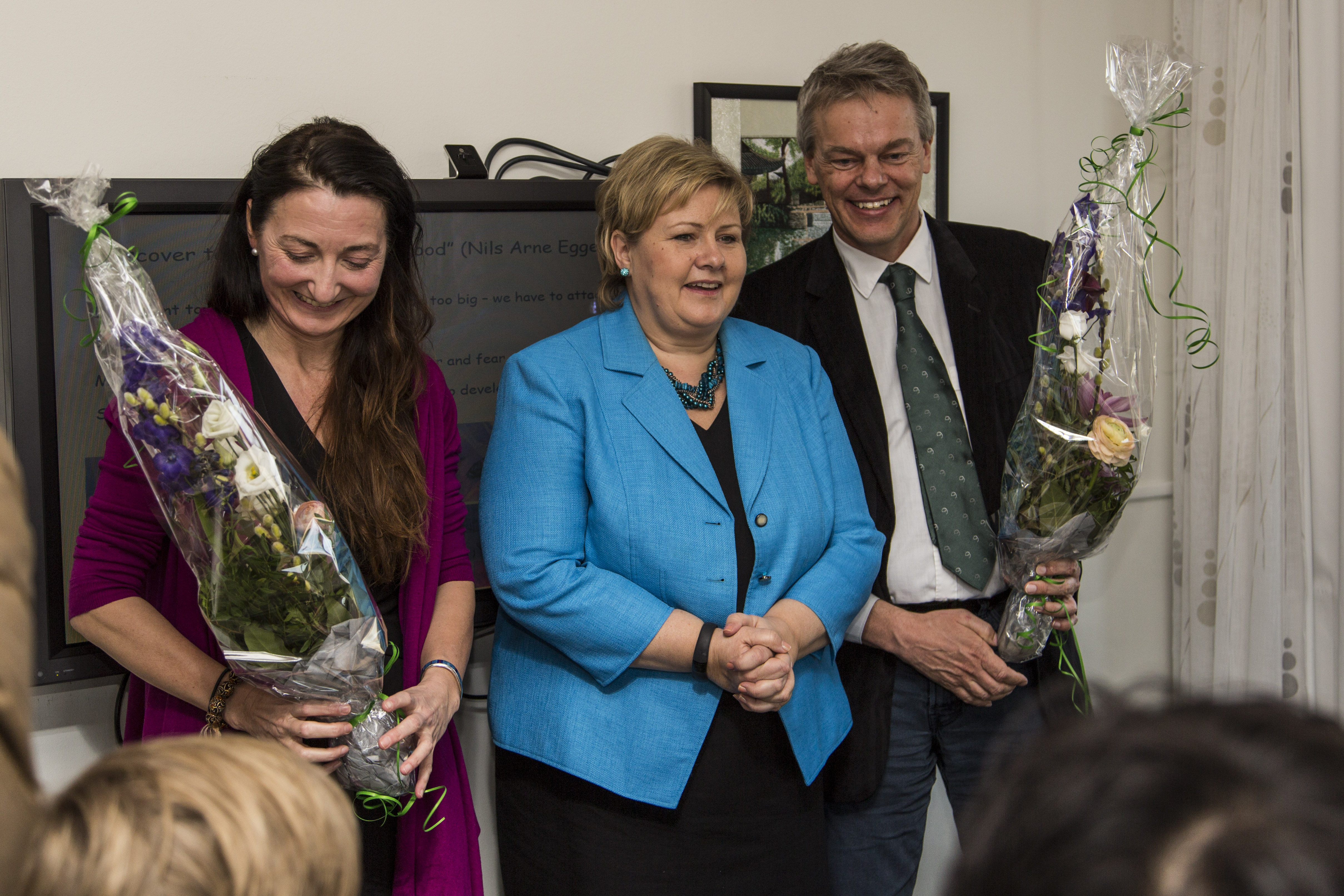 Norwegian prime minister Erna Solberg visits the Norwegian University of Science and Technology (NTNU), 4 March 2014. The Kavli Institute for Systems Neuroscience, Medical Technical Research Centre. Funding director of Centre for Neural Computation May-Britt Moser, prime minister Erna Solberg, founding director of the Kavli Institute for Systems Neuroscience Edvard Moser. Photographer: Henrik Fjørtoft / NTNU Communication Division